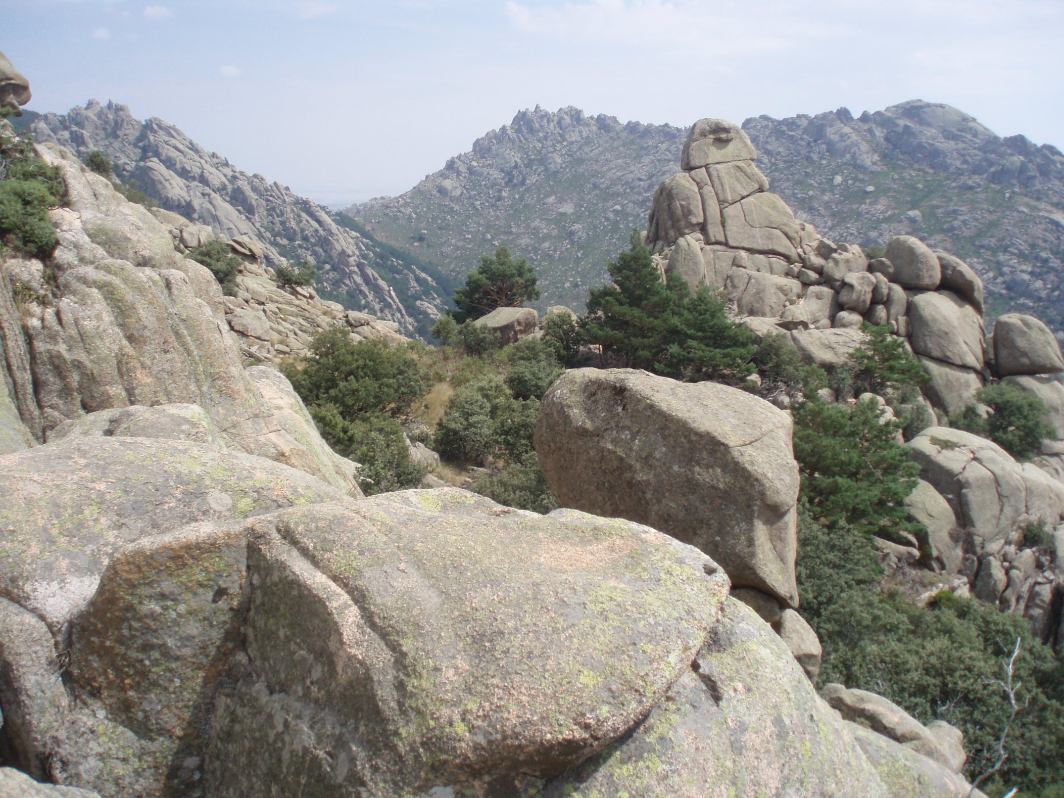 La Pedriza, in the Guadarrama mountain range, in province of Madrid, central Spain.